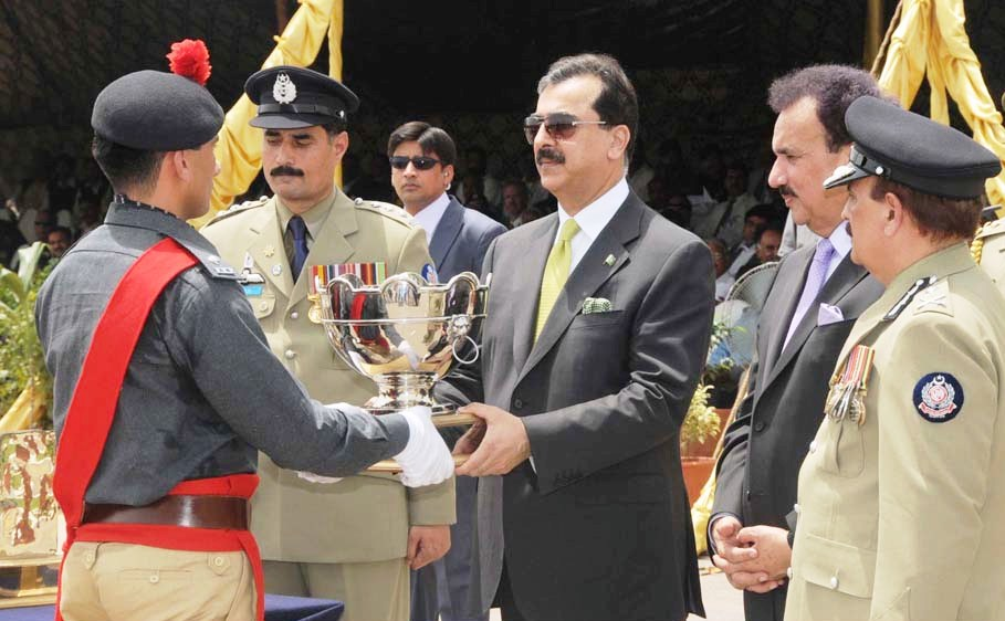 ASP Mustansar Feroze receiving all round best trophy from Syed Yousaf Raza Gilani, Prime Minister of Pakistan at National Police Academy, Islamabad.